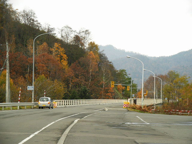 Ban'nosawa Bridge. Toyotaki, Minami ward, Sapporo, Hokkaidō prefecture, Japan. Westward.